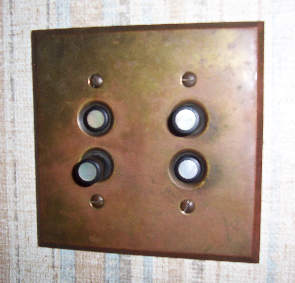 A picture of a push button light switch from my house. Both switches are three-way switches.